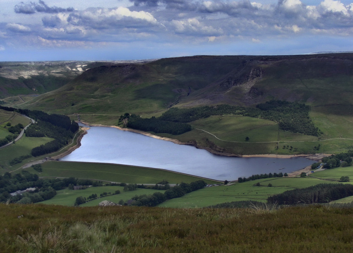 Dovestone Reservoir from Alphin Hill, in Saddleworth, Greater Manchester, England.